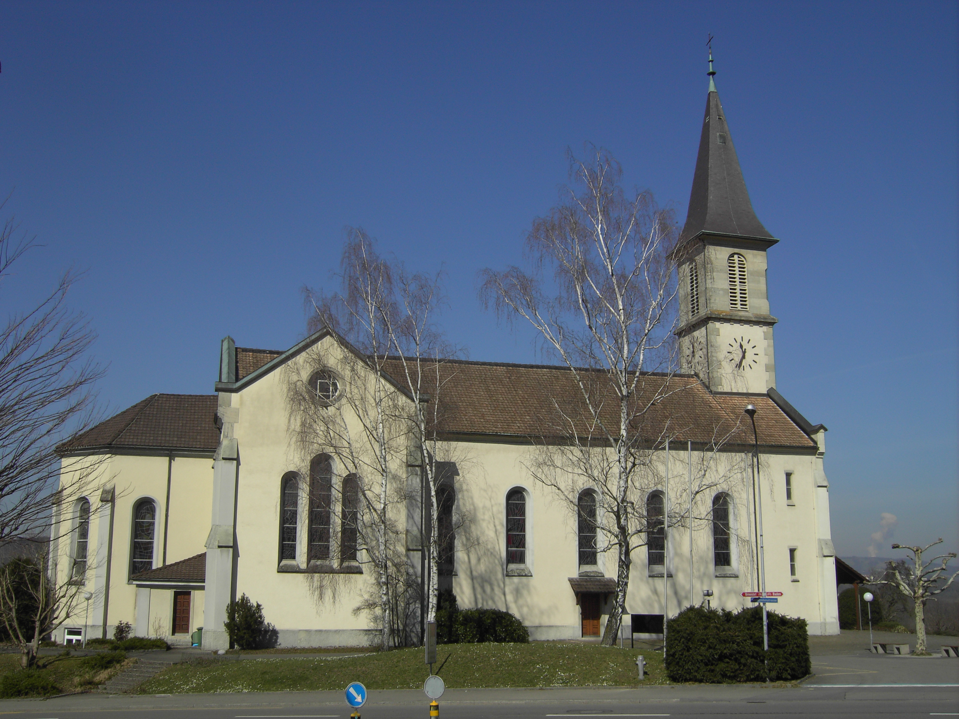 Rom.-cath. Church Gebenstorf AG